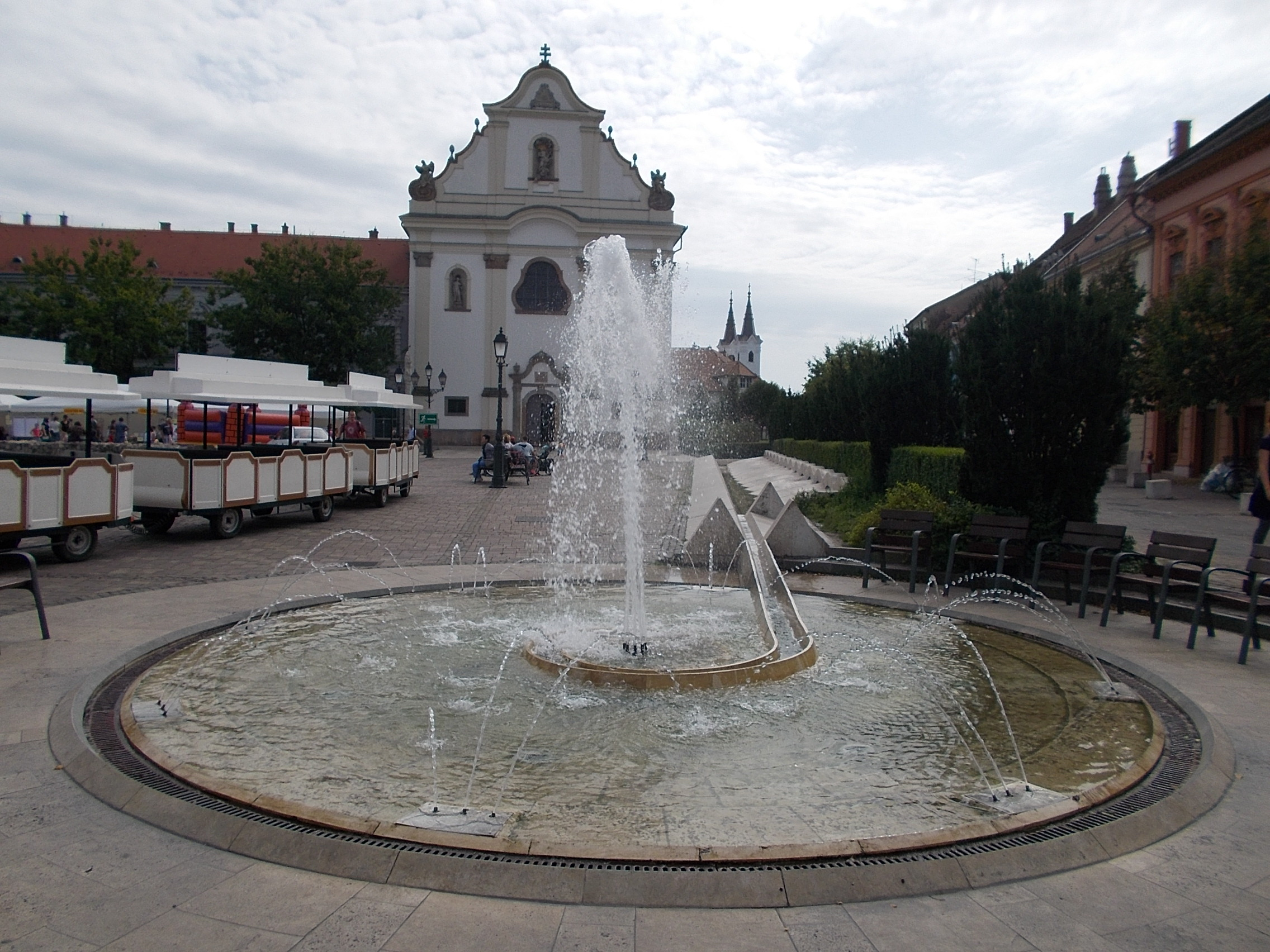 New Fountain. - Március 15. Square, Vác, Pest County, Hungary